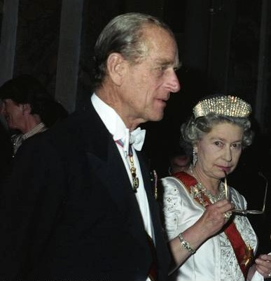 Cropped version of File:Bundesarchiv Bild 199-1992-089-19A, Britische Königin Elisabeth II. in Brühl.jpg: Queen Elizabeth II and Prince Philip in Germany, October 1992